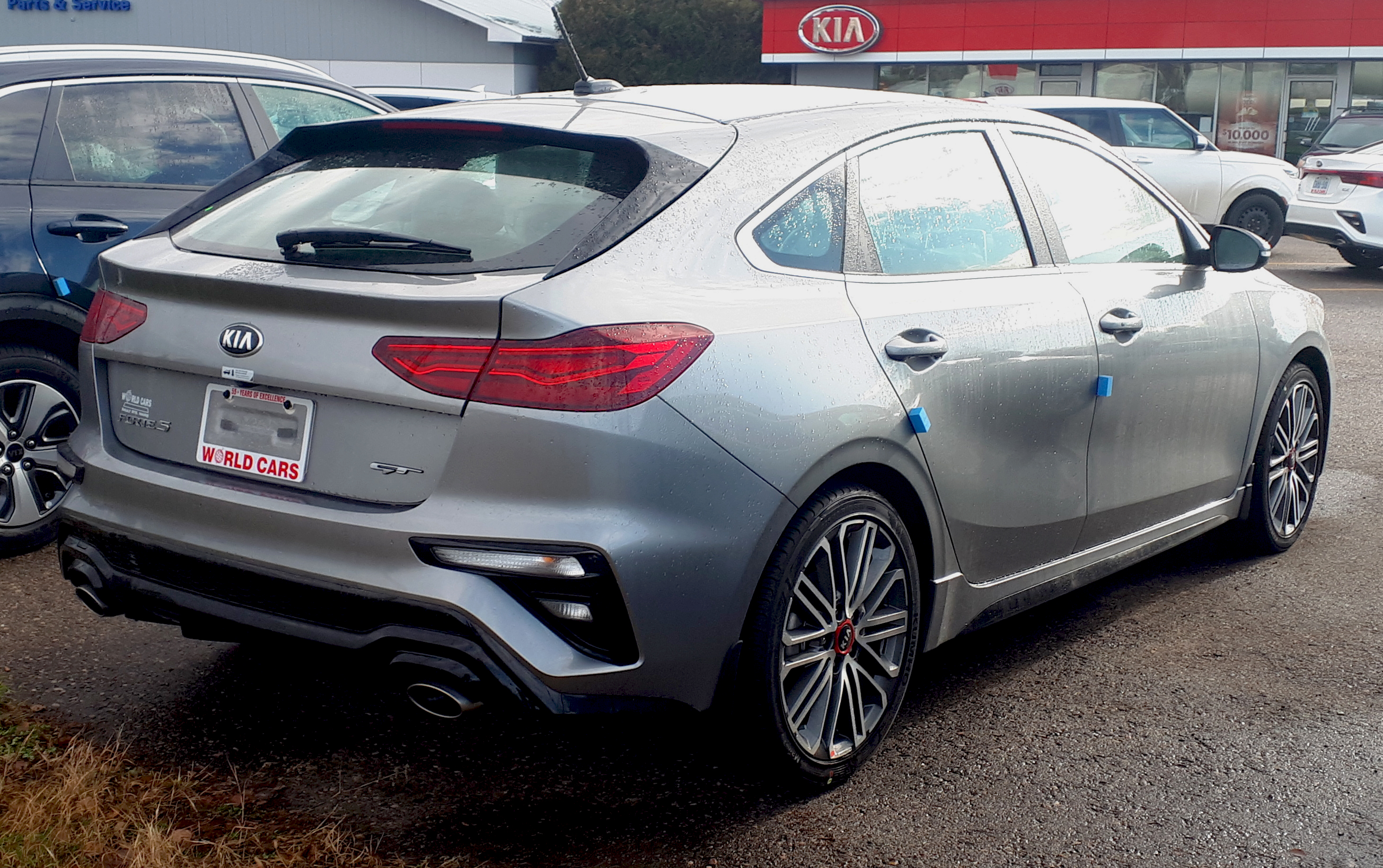 2020 Kia Forte5 GT photographed in Sault Ste. Marie, Ontario, Canada